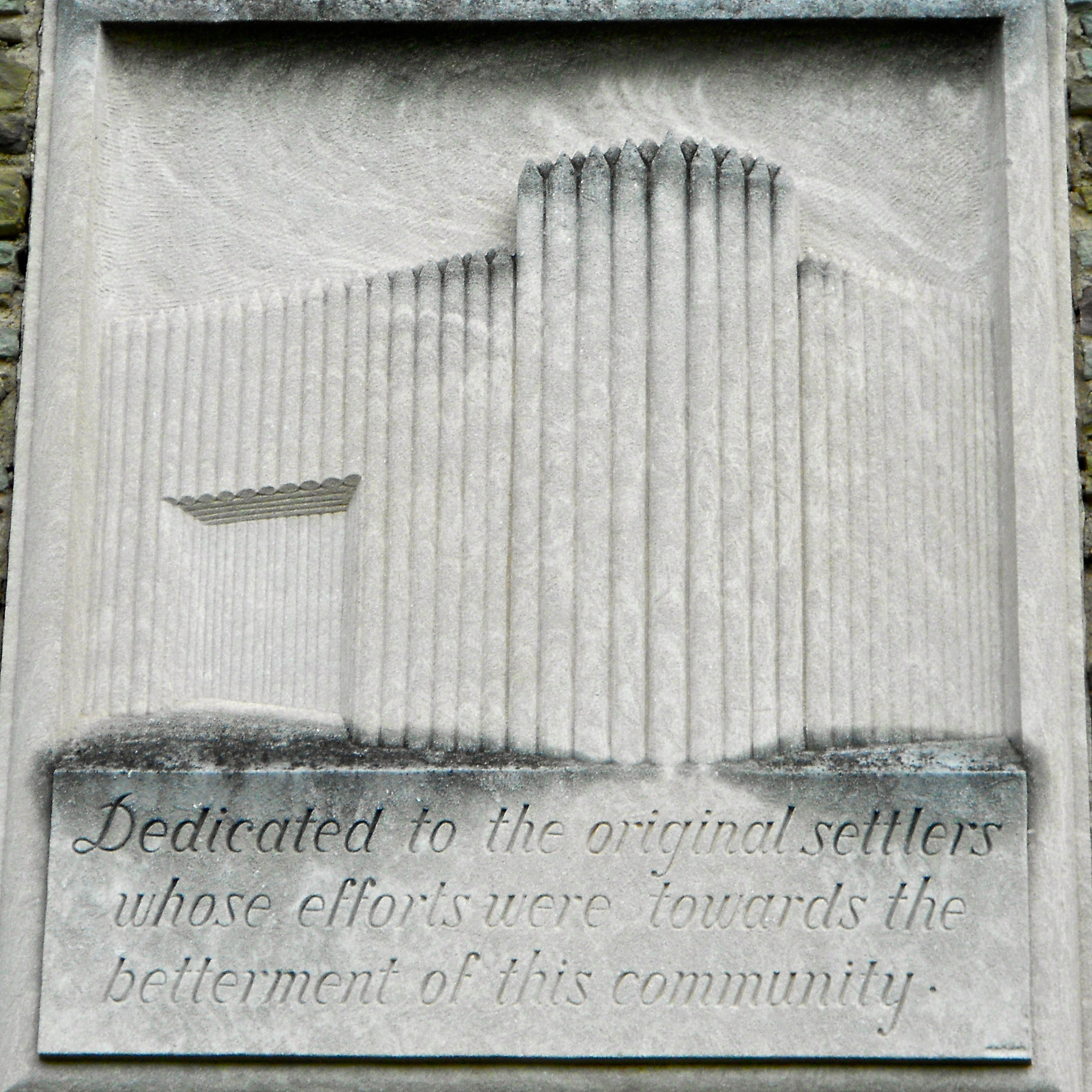 Relief on the Forty Fort Borough Hall in Luzerne County, Pennsylvania. The building was built c. 1925 and there is no visible copyright symbol on the artwork, thus it is in the public domain.